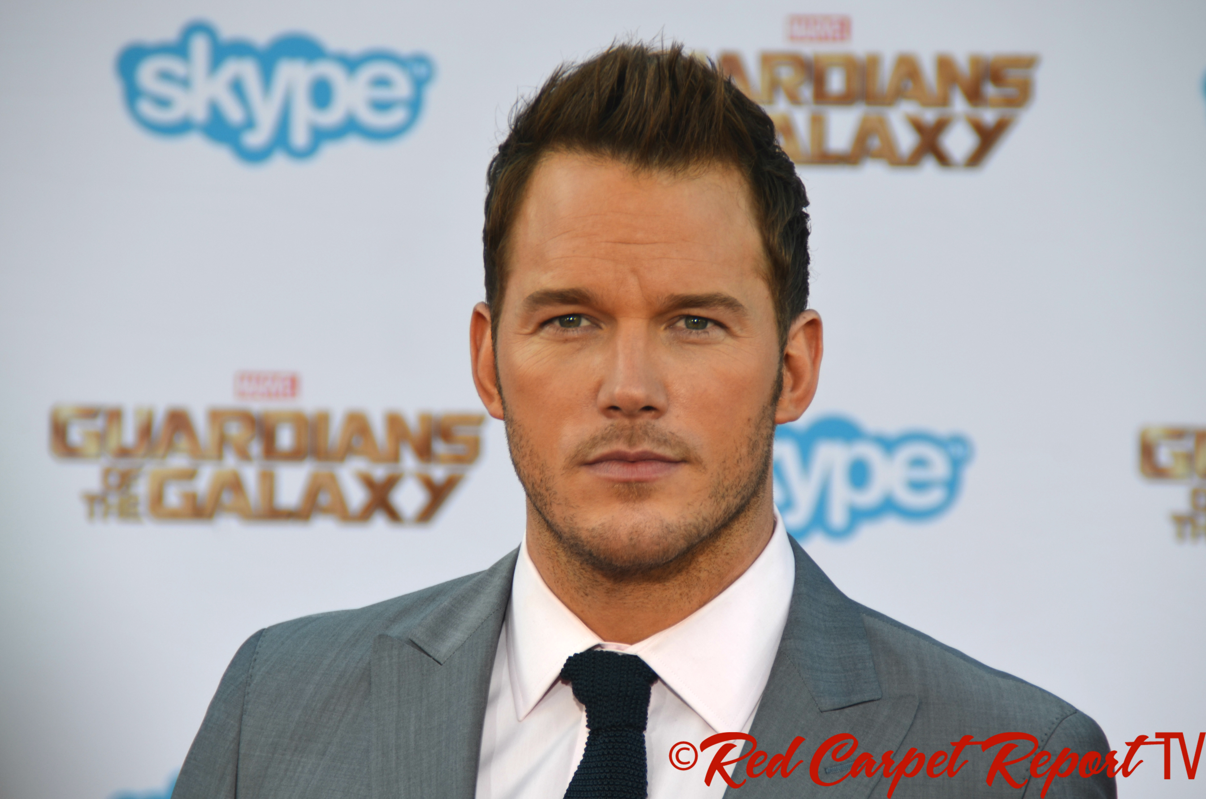 Actor Chris Pratt at the Premiere of Guardians of the Galaxy at the El Capitan Theater in Hollywood on July 21, 2014